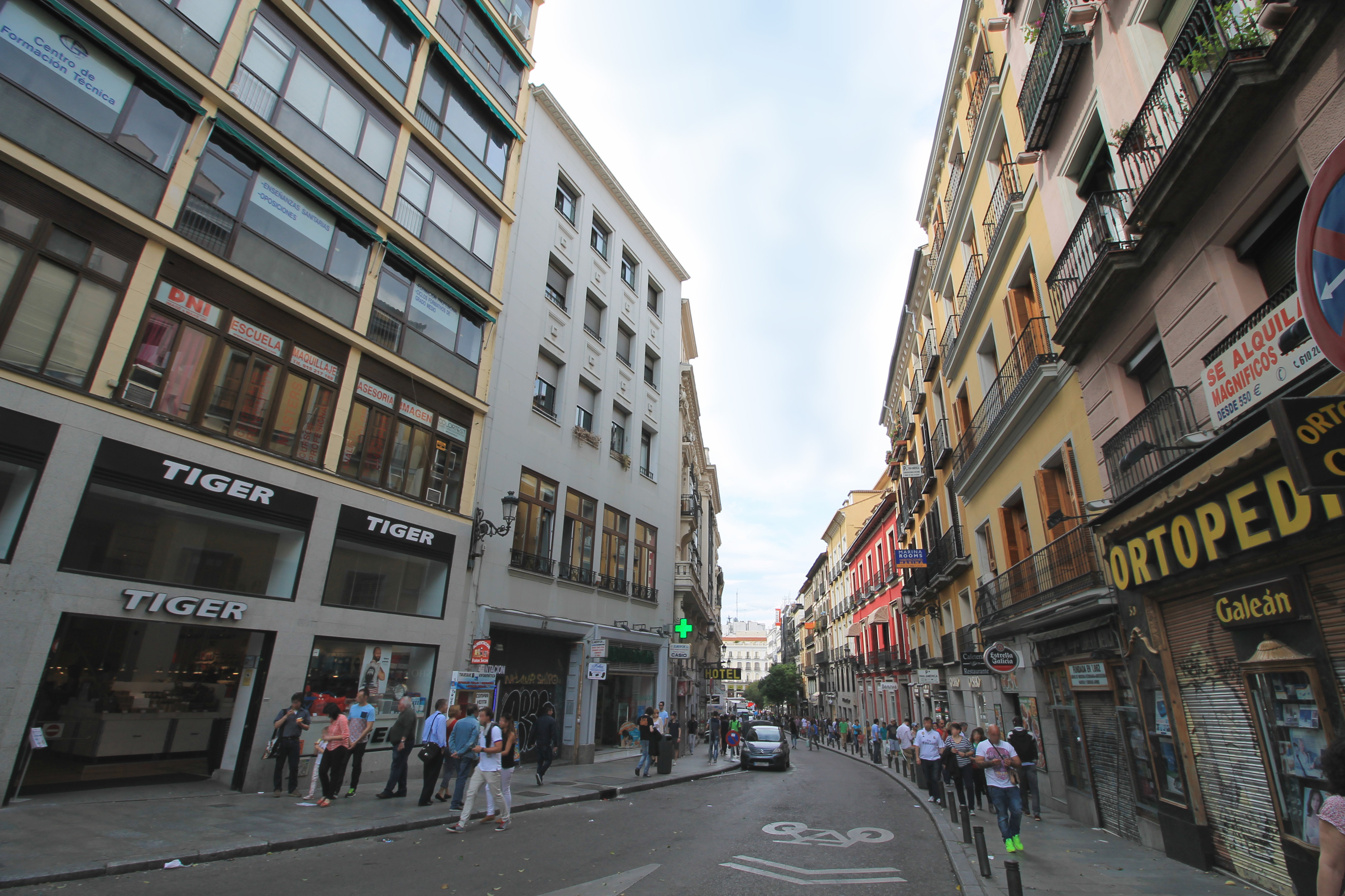 View from Calle de Carretas (street) in Madrid (Spain).